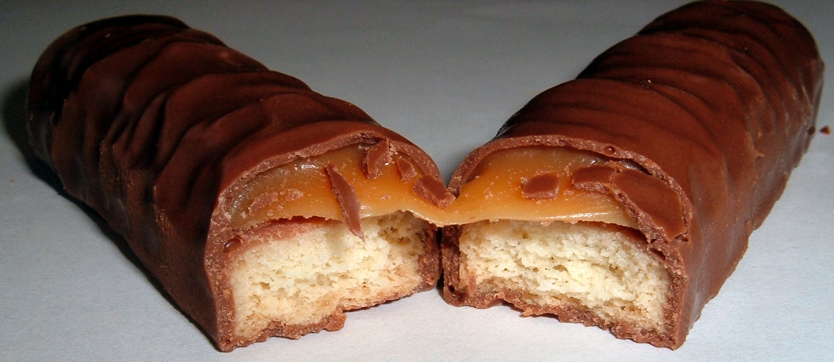 Twix bar Purchased March 2005 in Atlanta, GA, USA